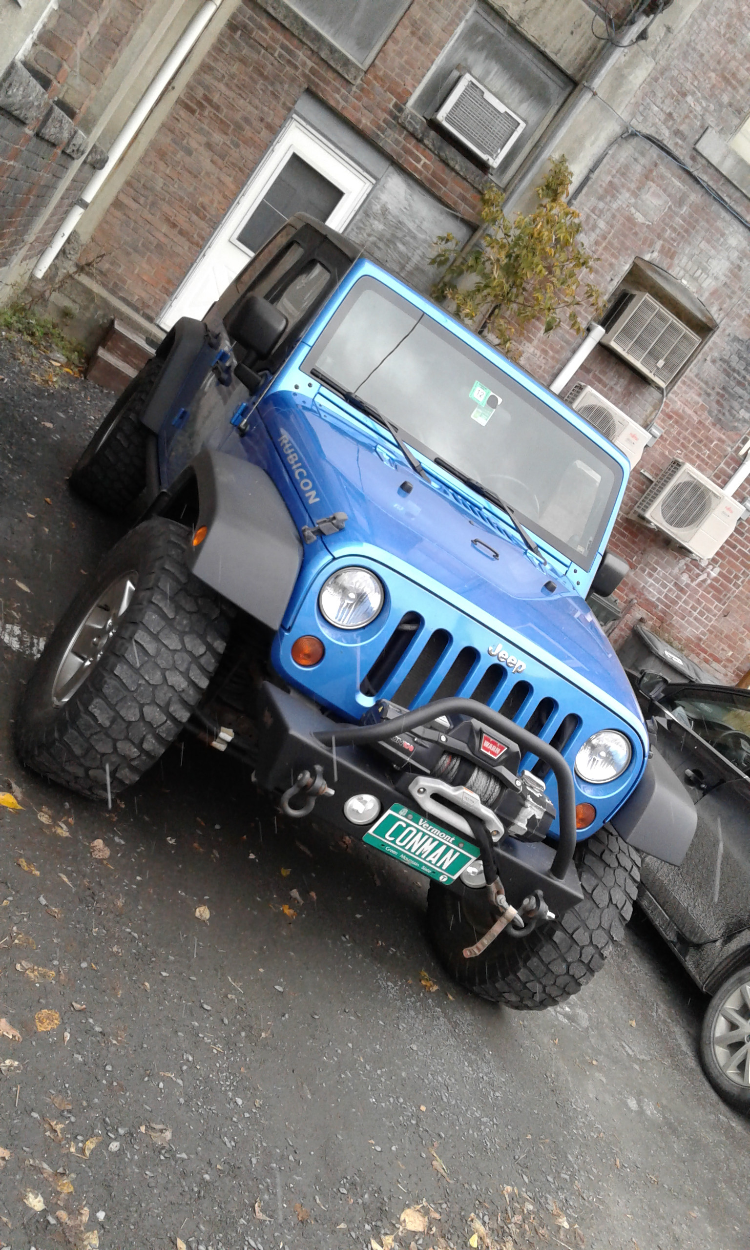 Jeep Wrangler Rubicon in parking lot behind State Street (Positive Pie/Subway) in downtown Montpelier, Vermont.